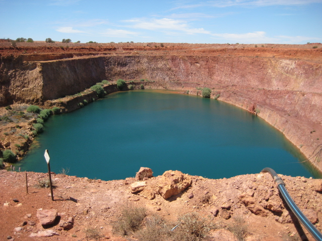 Kingfisher open pit at Gidgee Gold Mine, filled with fresh water.